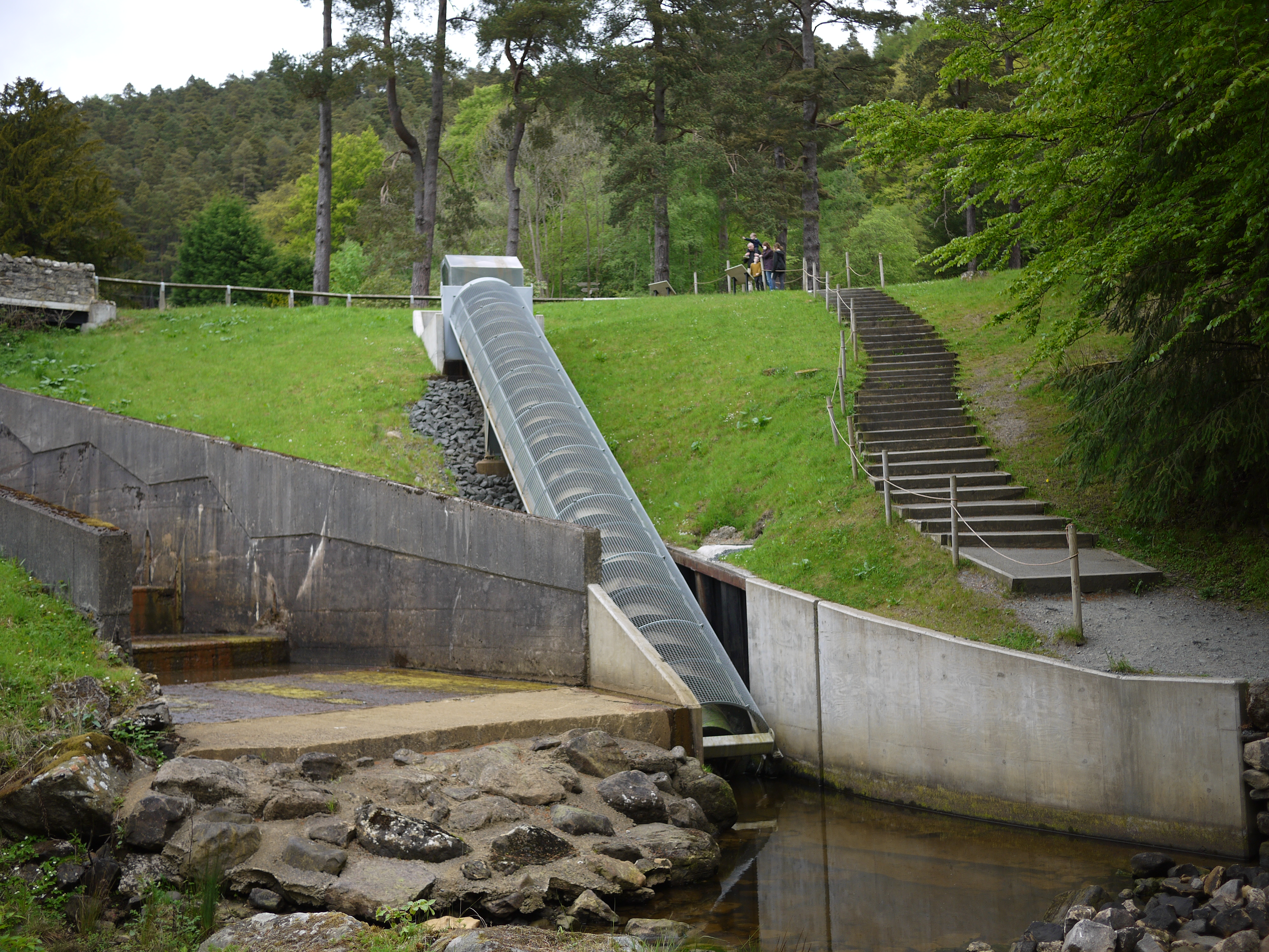 Cragside Archimedes' screw from bottom